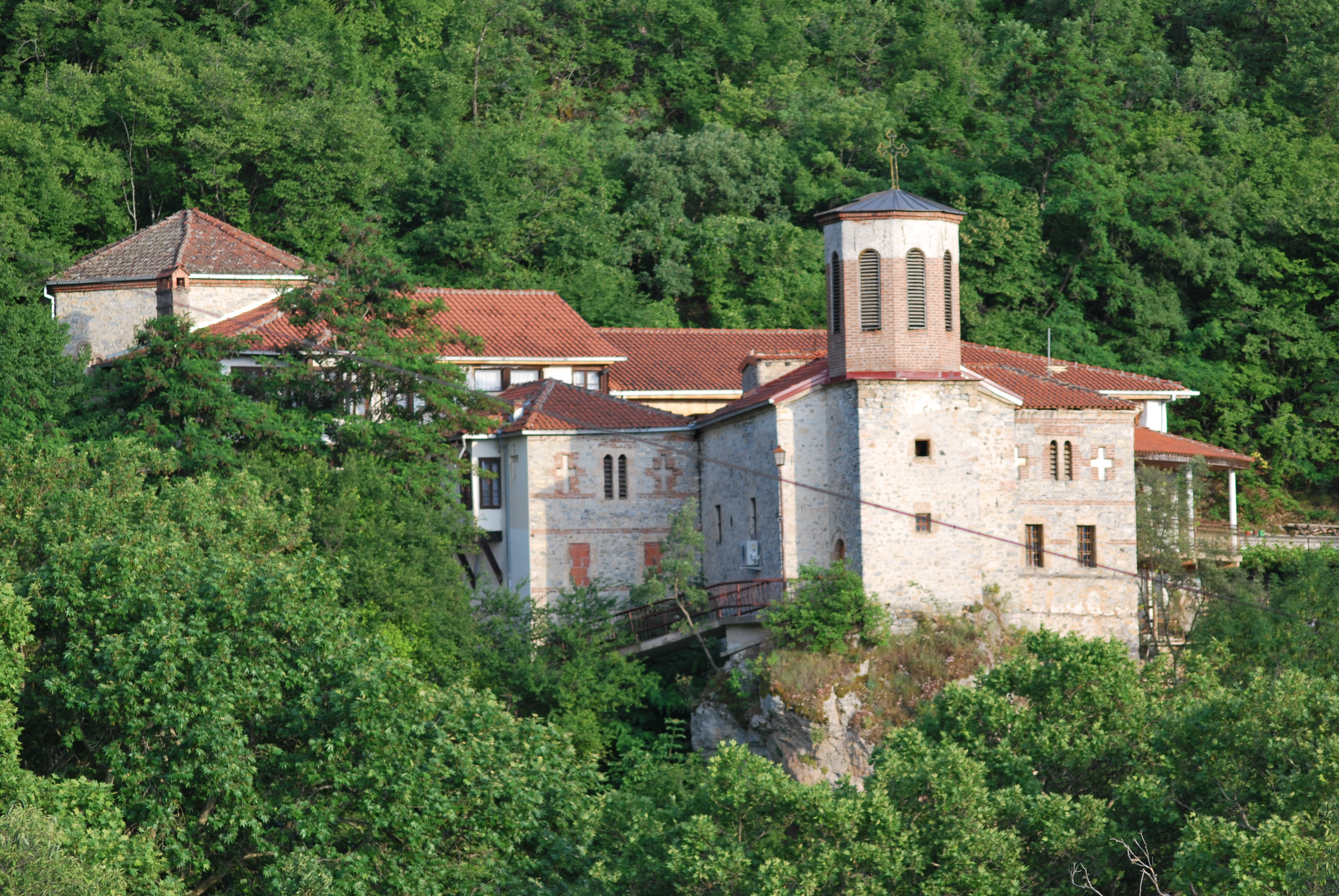 Velgošti Monastery, Macedonia